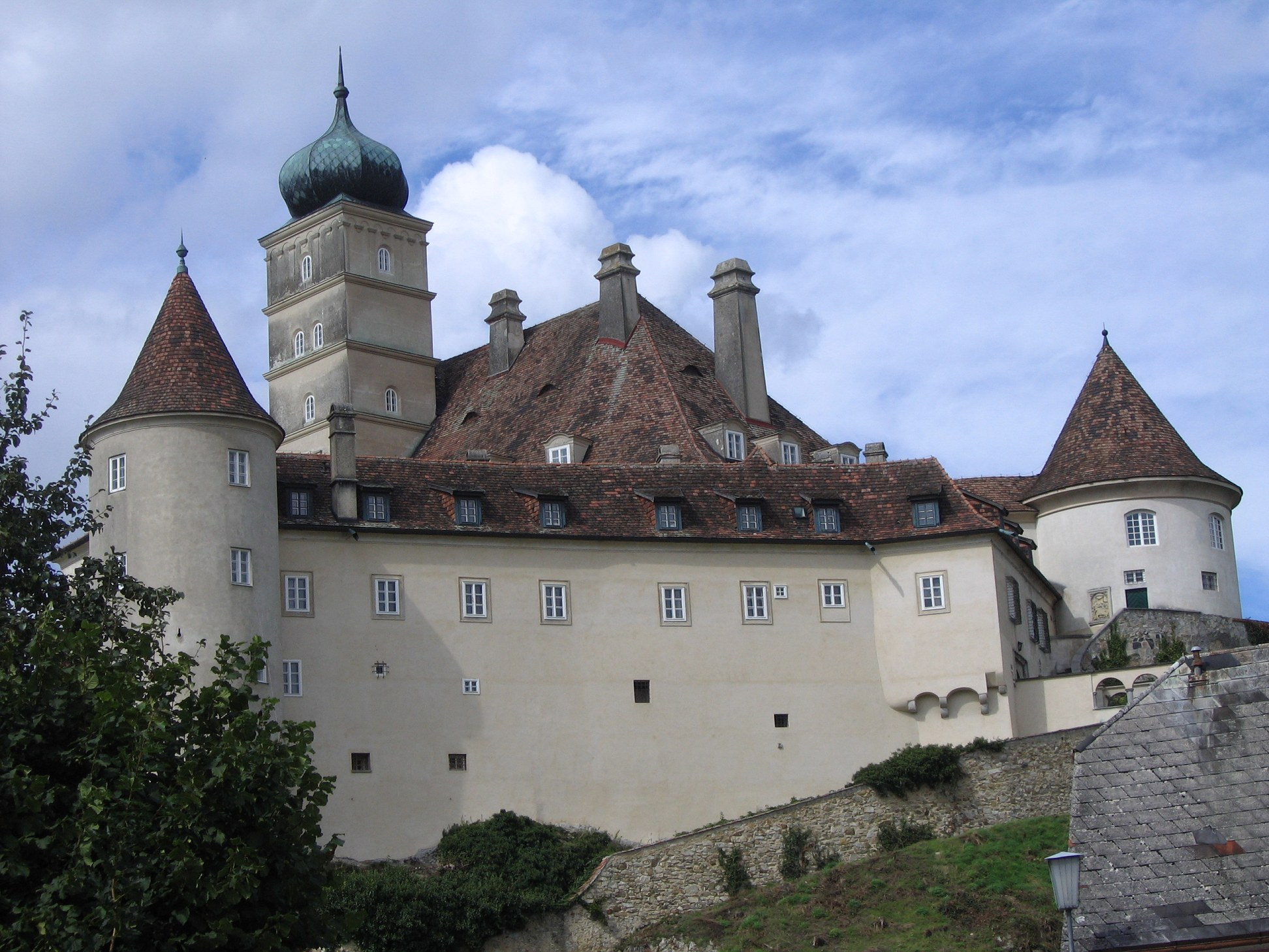 Schönbühel castle near Melk, Wachau, Austria. Geographical position 48°15'19" N 15°21'21" E